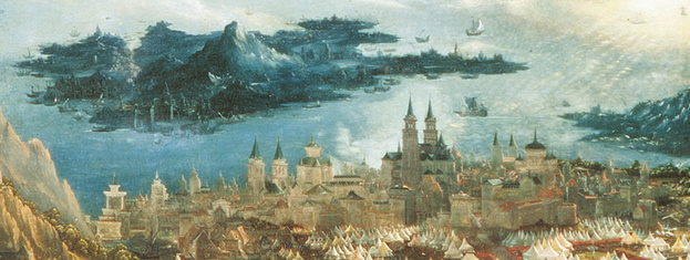 Battle of Alexander the Great against Persian King Darius